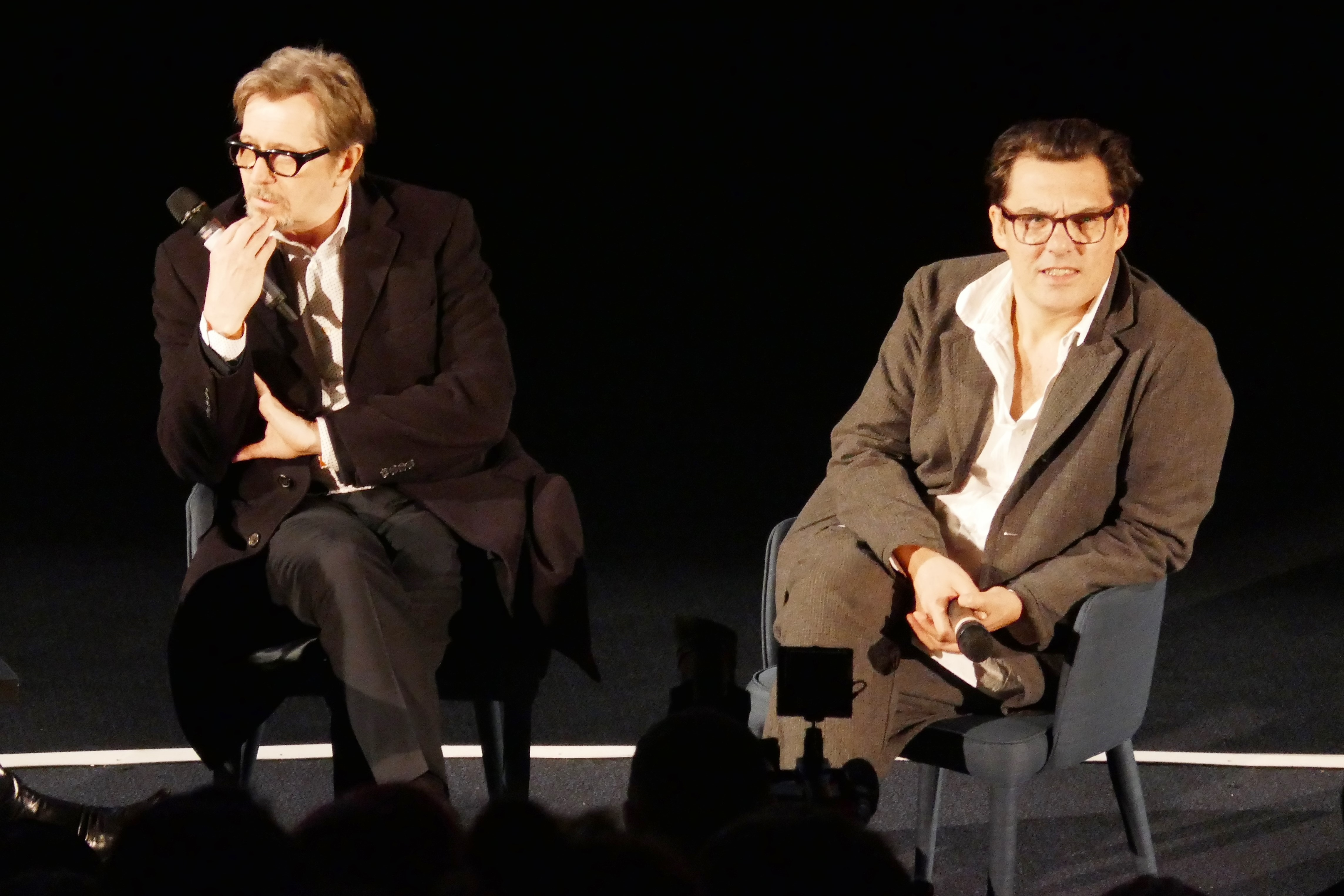 Gary Oldman & Joe Wright at "Darkest Hour" Paris Premiere